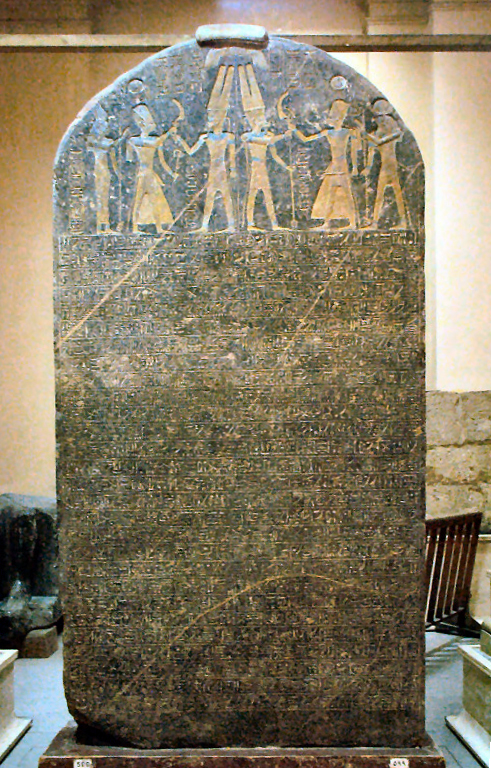 Merneptah Stele known as the Israel stela (JE 31408) from the Egyptian Museum in Cairo.